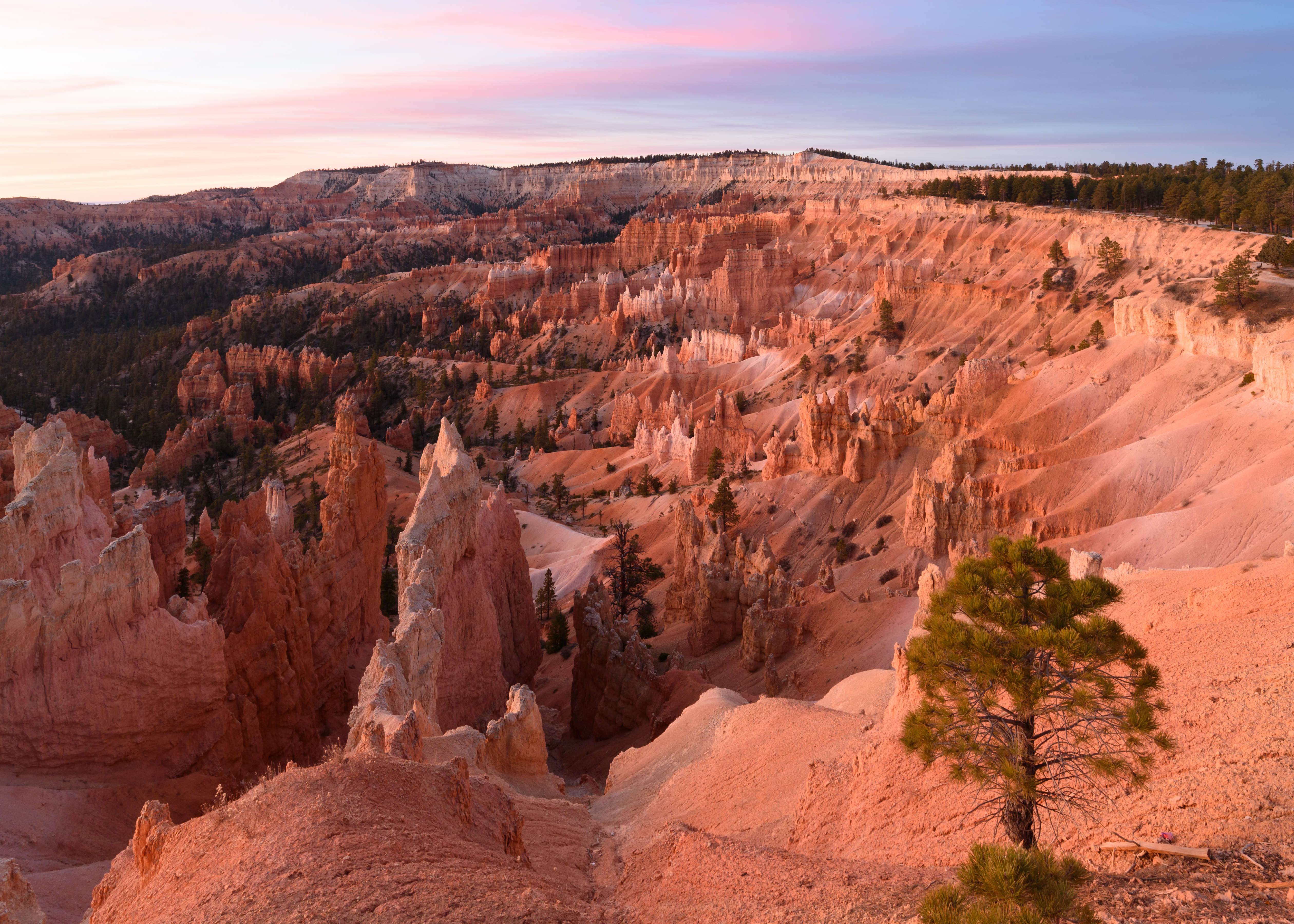 Sunrise Point, Bryce Canyon National Park.